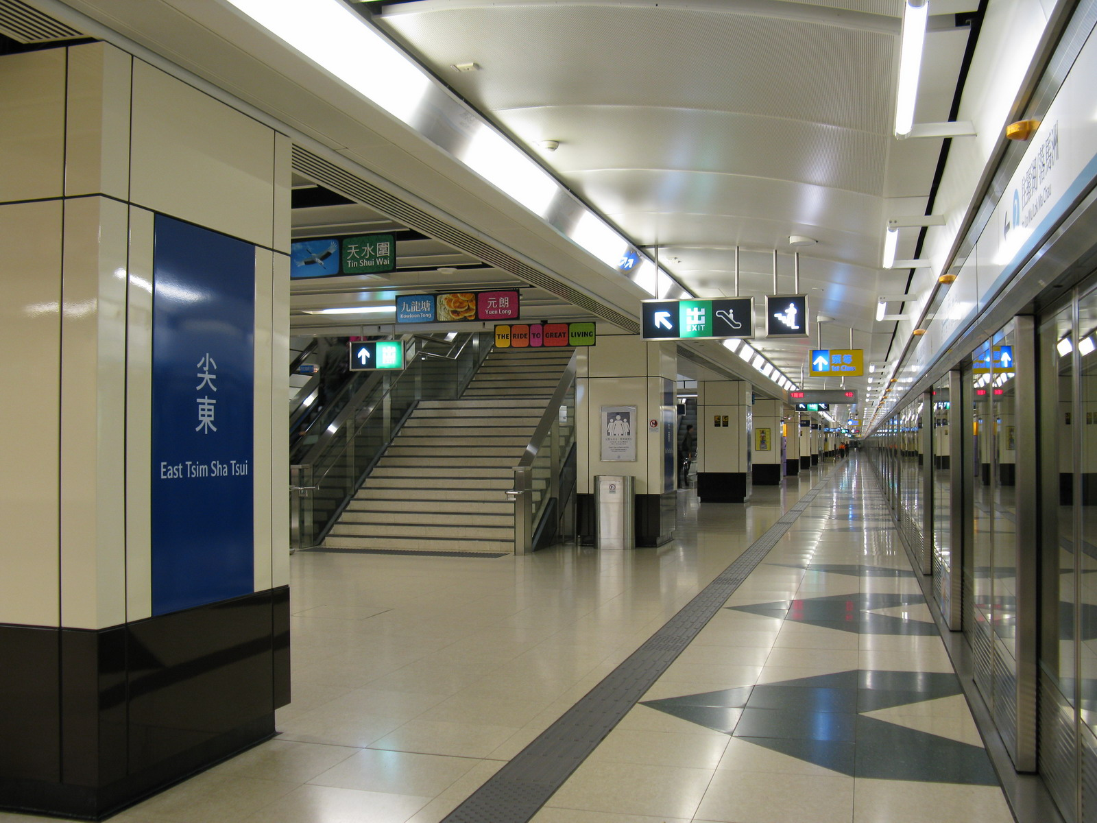 尖東站-東鐵綫月台 East Rail Line Platform of East Tsim Sha Tsui Station